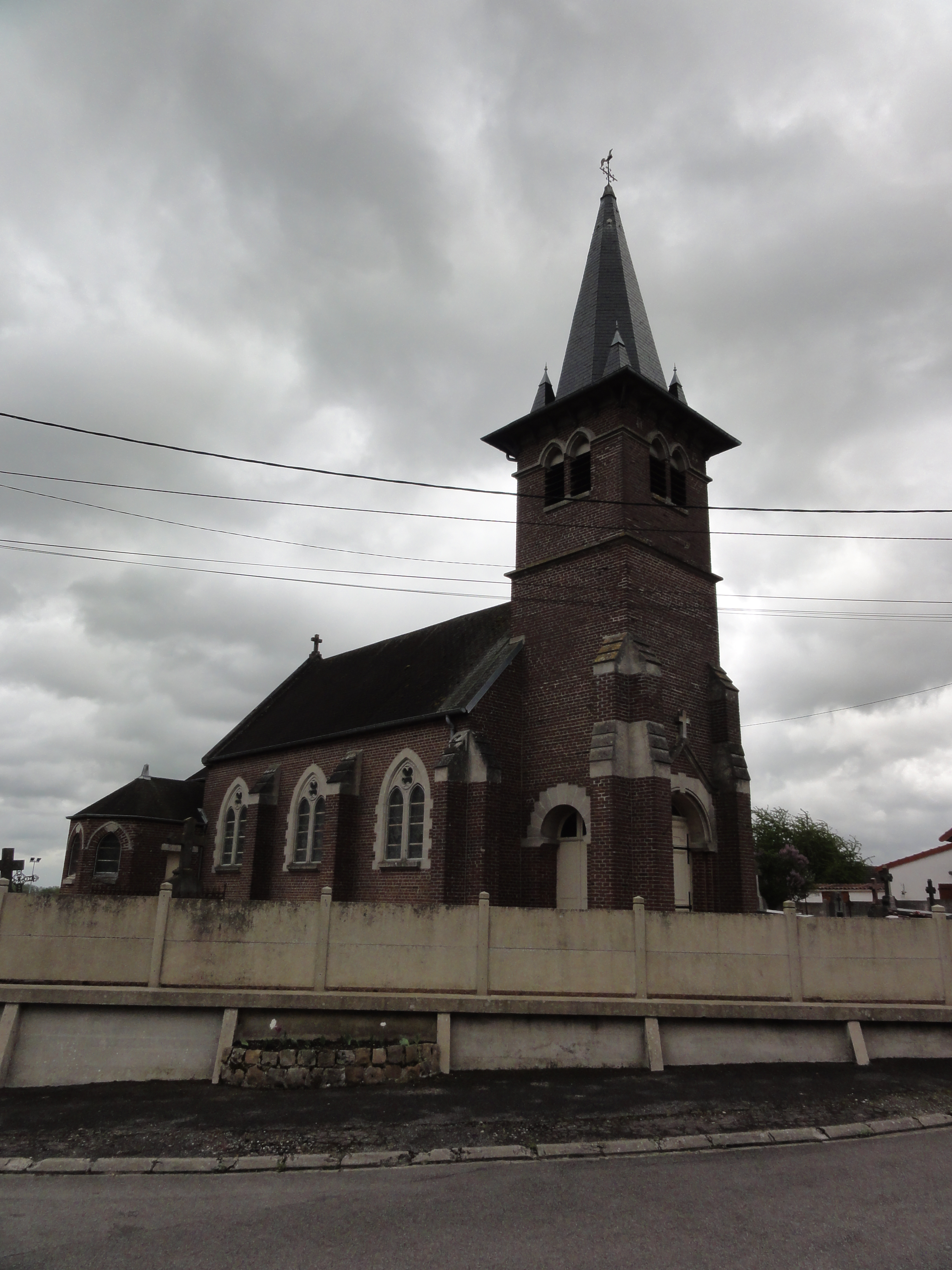 Danizy (Aisne) église